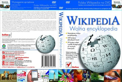 Polish Wikipedia DVD released by Helion